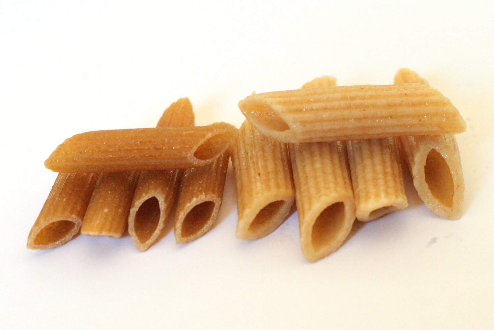 Whole wheat penne pasta, cooked (right) and uncooked (left), from Trader Joe's. The only ingredient is "Organic Whole Durum Wheat".